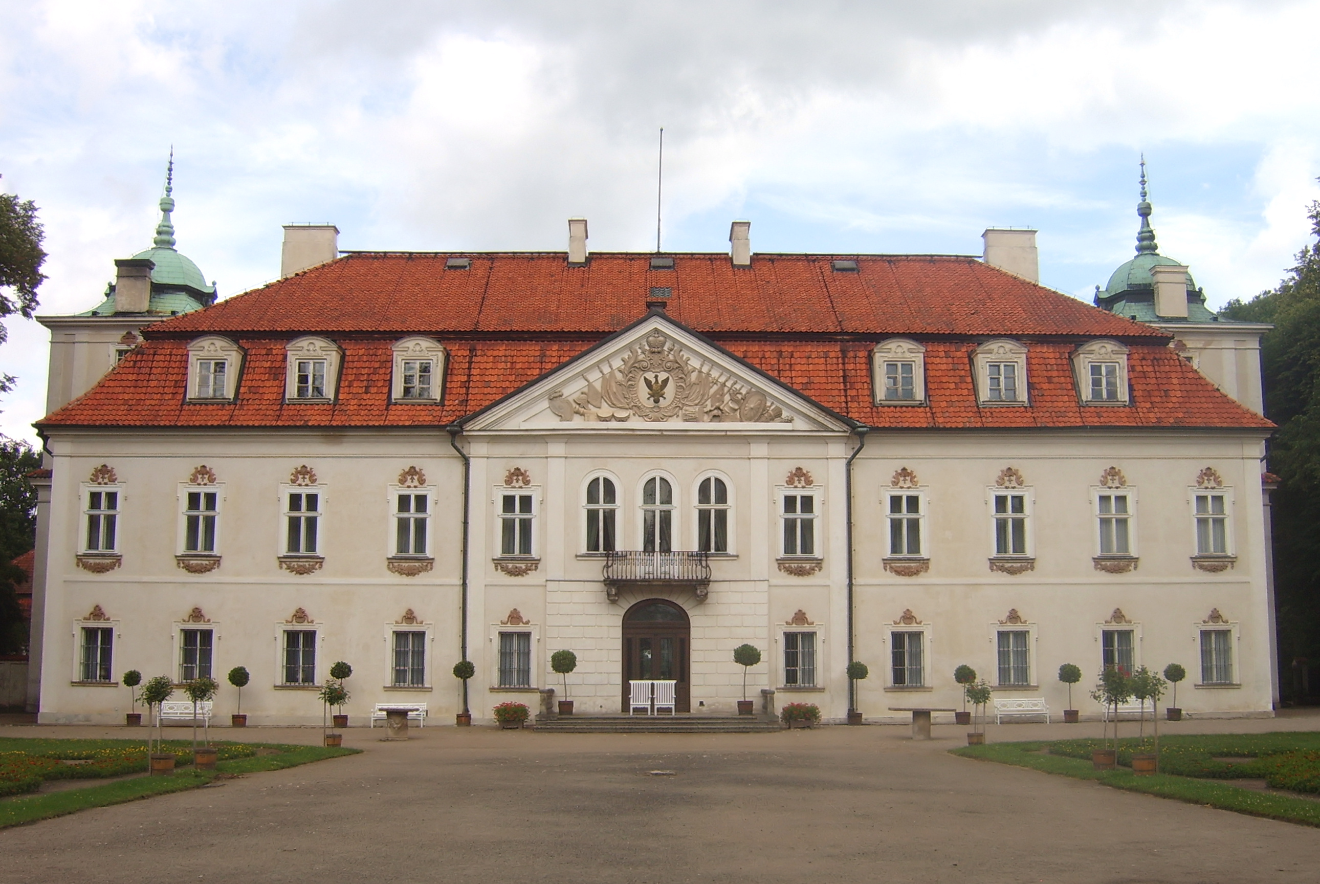 Nieborów Palace Poland.